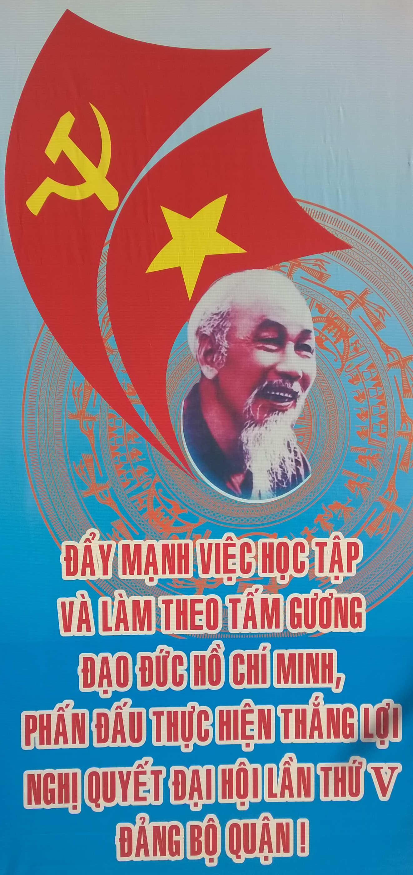 Communist propaganda of Da Nang in 2015.